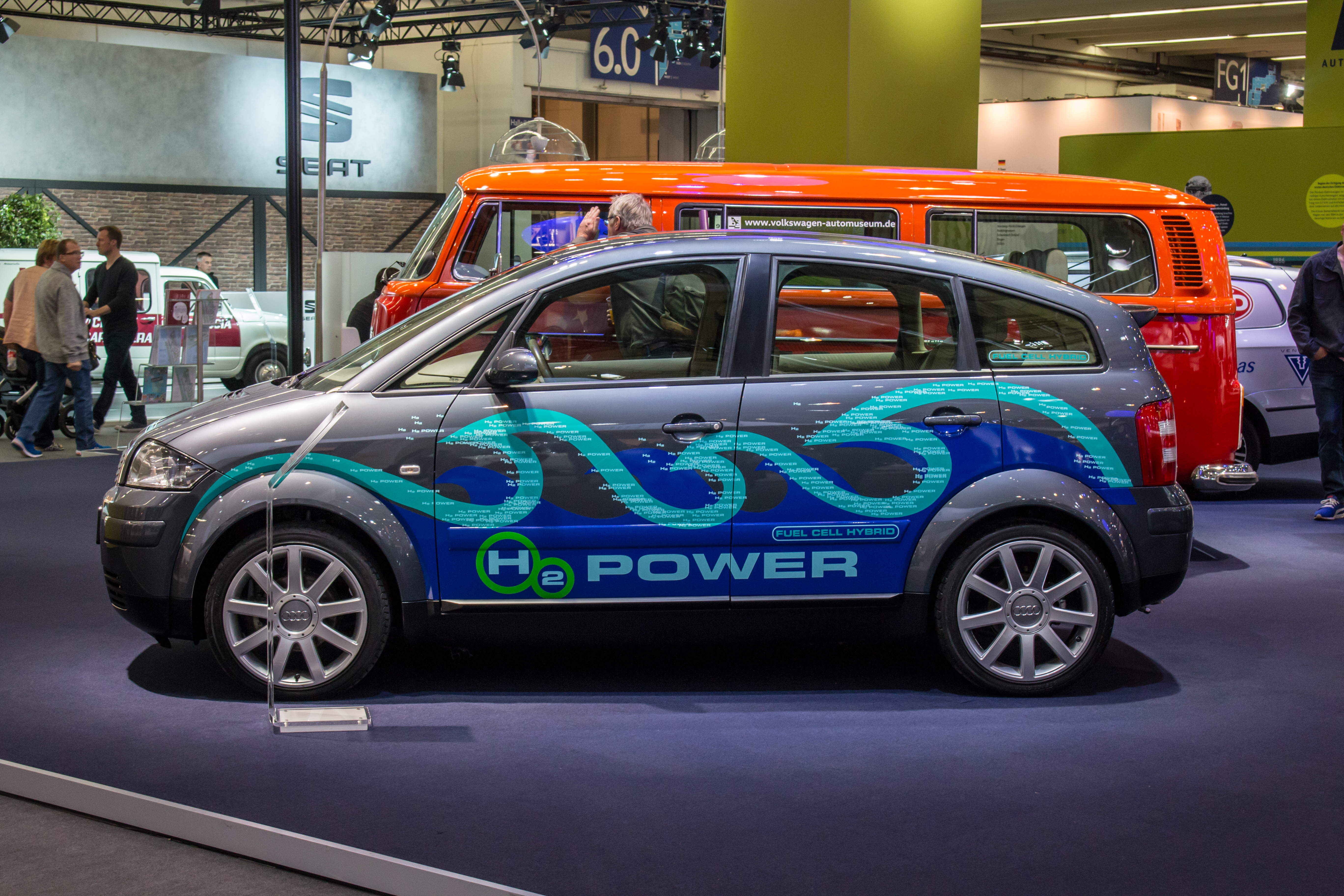 Techno-Classica 2018, Essen